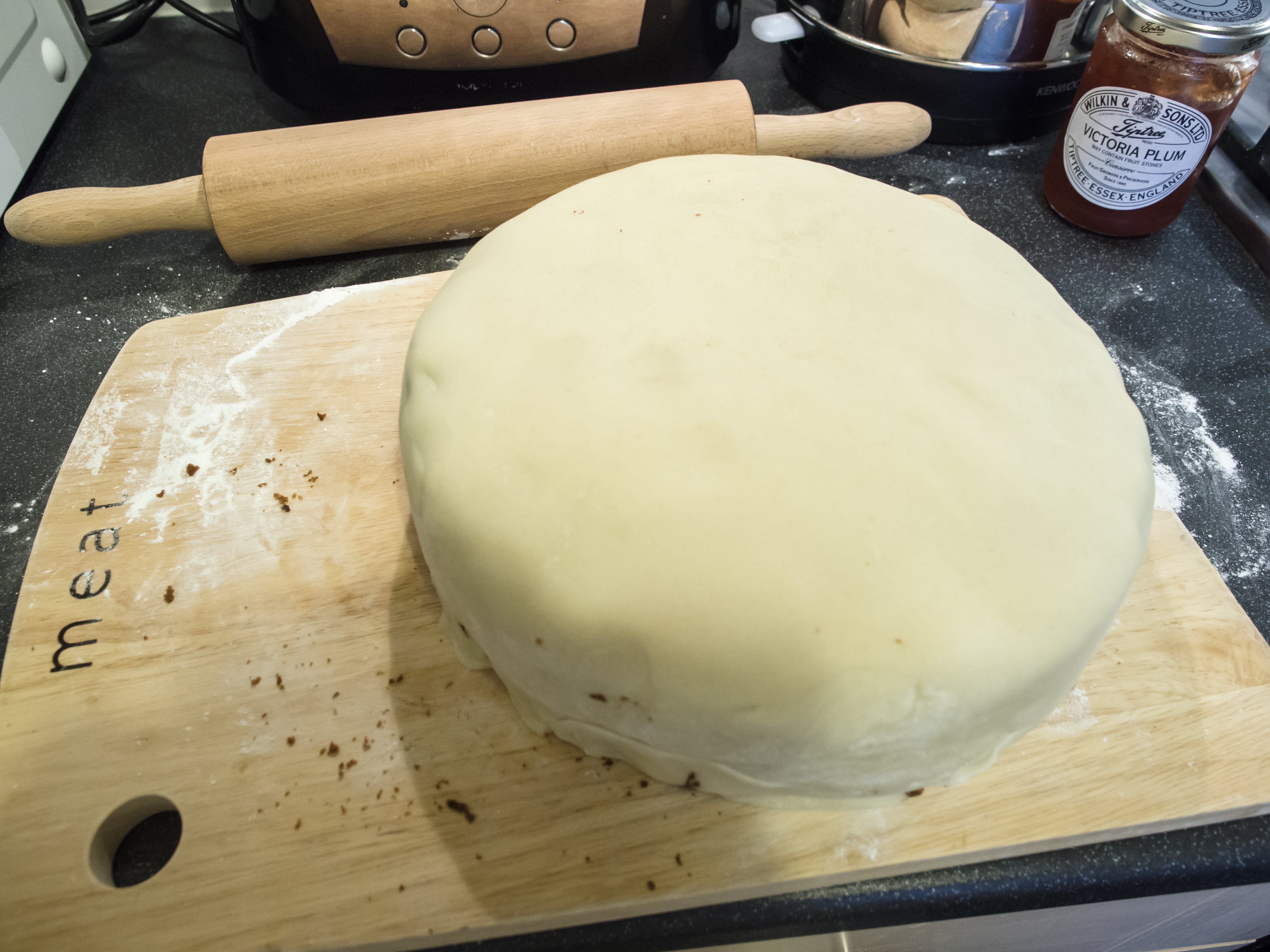 Christmas cake